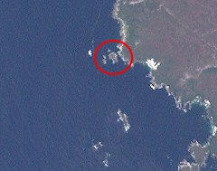 This image (Landsat 7) shows the Trumpeter Islets, off the south-west coast of the island Tasmania, Australia. Red circle added by User:Wurfzoll.